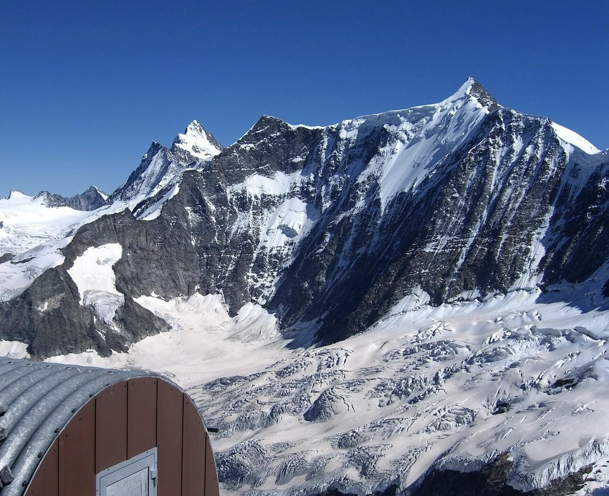 Gross Fiescherhorn terrific north wall, view from Mittellegi.